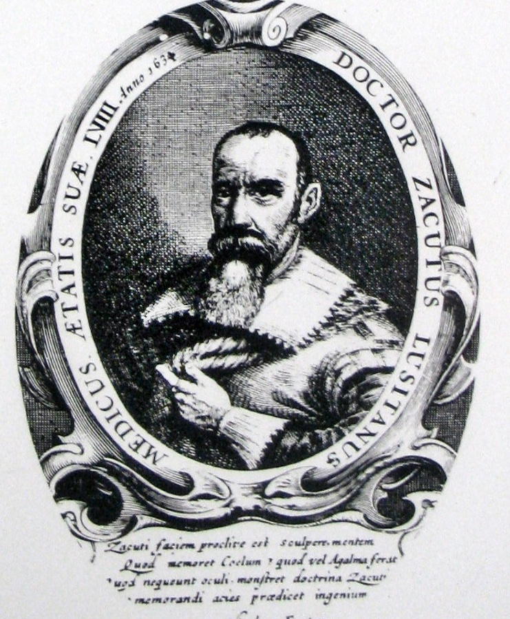 An Exhibit at the Diaspora Museum, Tel Aviv – Beit Hatefutsot. Portrait of Zacutus Lusitanus. (Photo taken by Sodabottle)